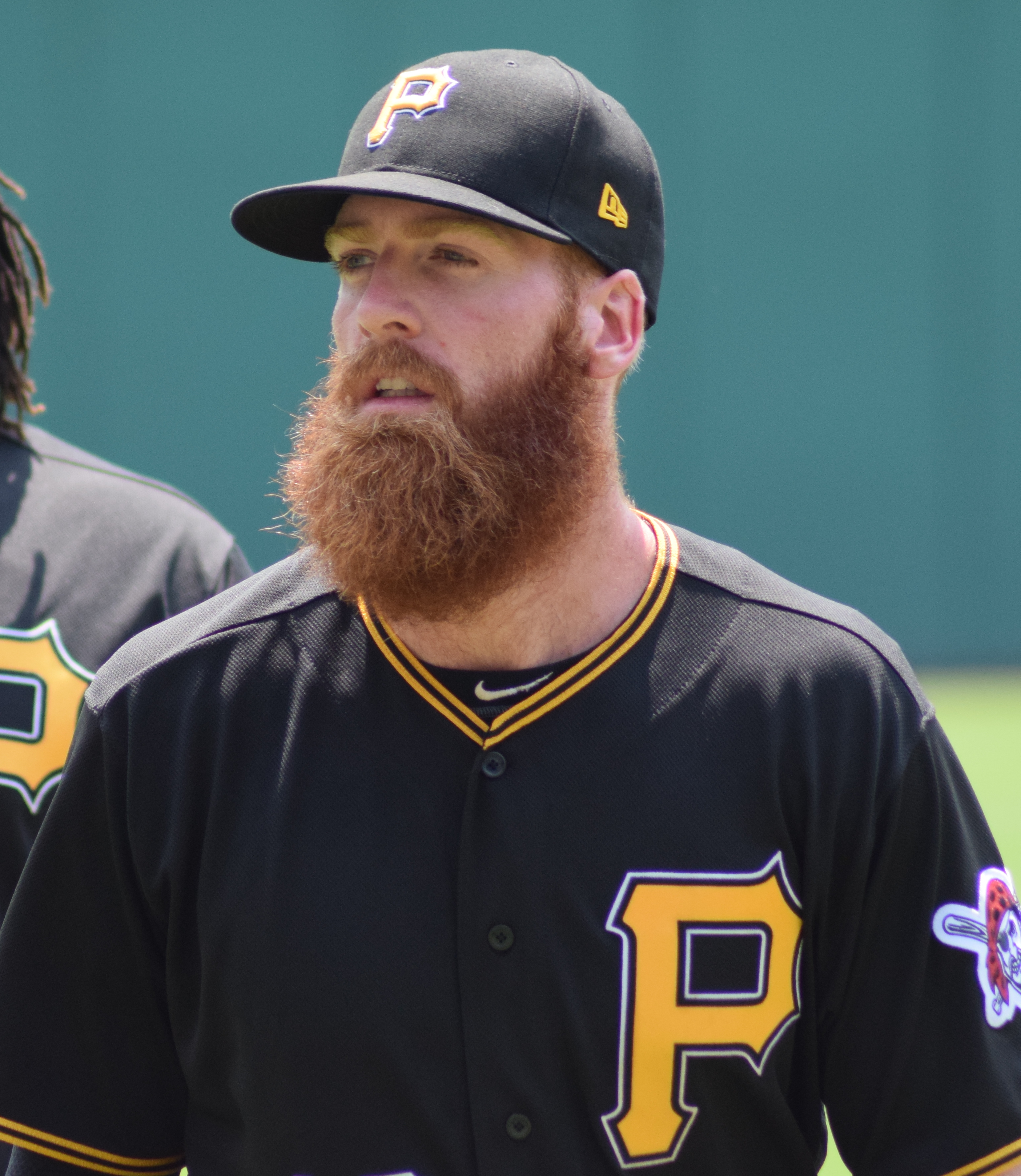 Pirates infielder Colin Moran